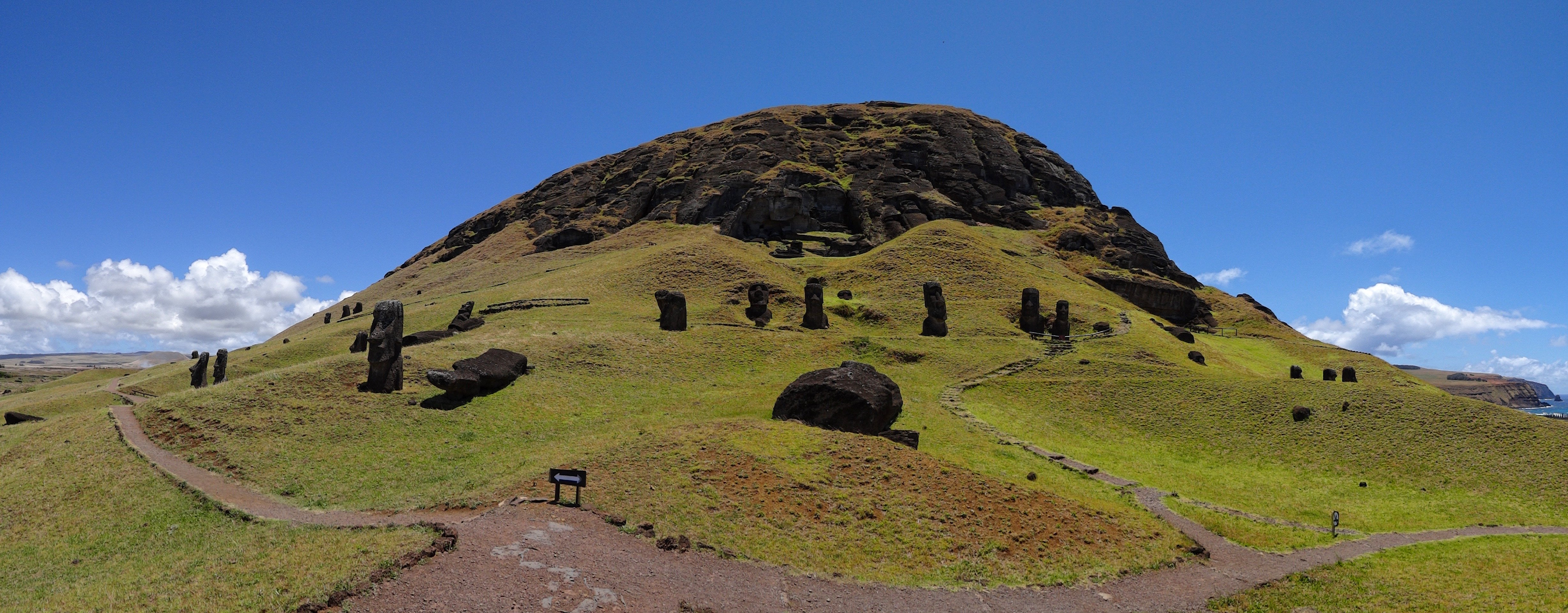 A large number of moai on the south side of Rano Raraku on Easter Island, some half-buried, some left "under construction" in the mountain.